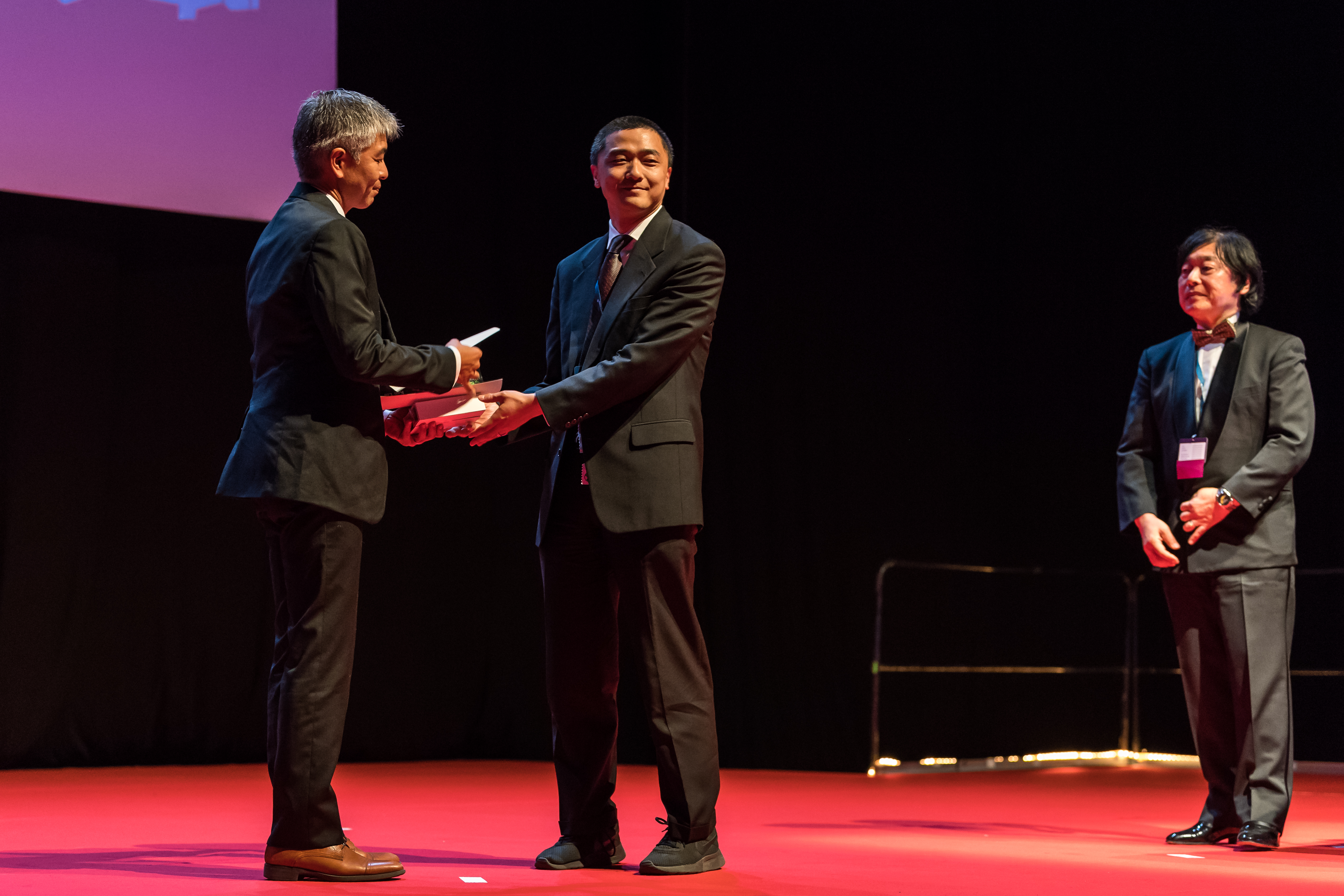 Taiyo Fujii, Ken Liu and Takayuki Tatsumi at the Hugo Awards Ceremony 2017 at Worldcon in Helsinki.